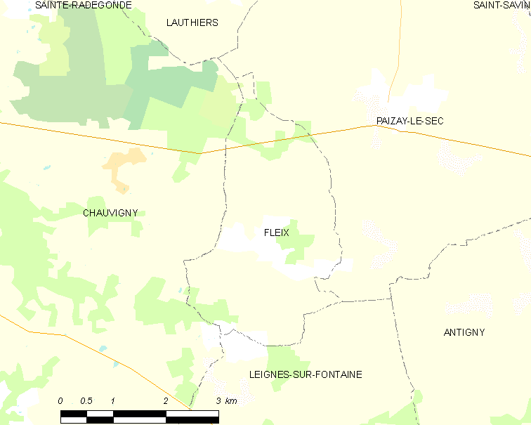 Map of French municipality Fleix